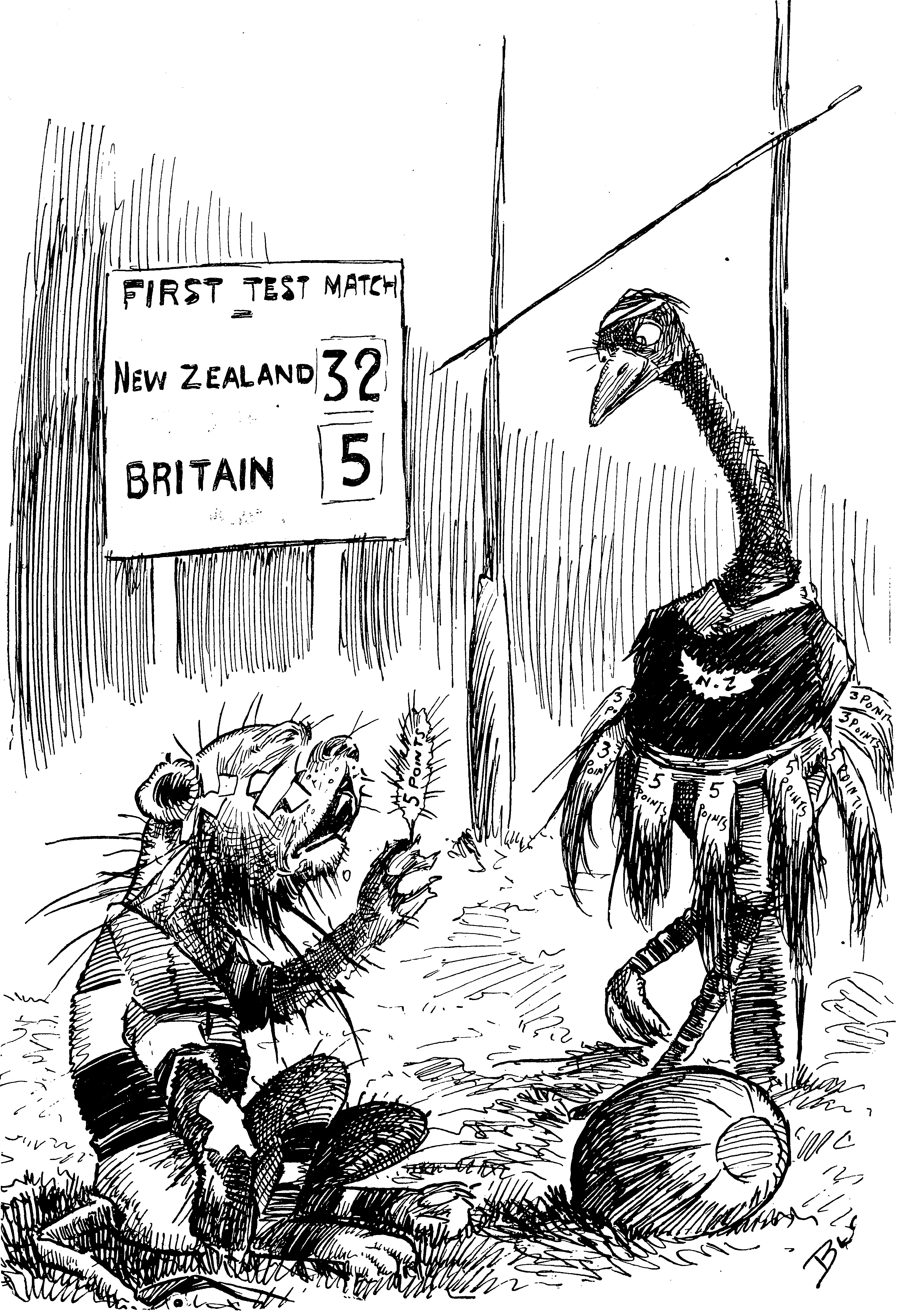 Caption: "After the Ball was Over—The Dilapidated Lion: Well, Mister Moa, you've scalped me pretty badly this time, but, thank goodness, you [rest of caption missing]". Published in the aftermath of an international rugby union match betweeb the New Zealand All Blacks (depicted as a moa), and the Anglo-Welsh side (depicted as a lion). New Zealand defeated the touring team 32–5 in the first test of the 1908 Anglo-Welsh tour of New Zealand.